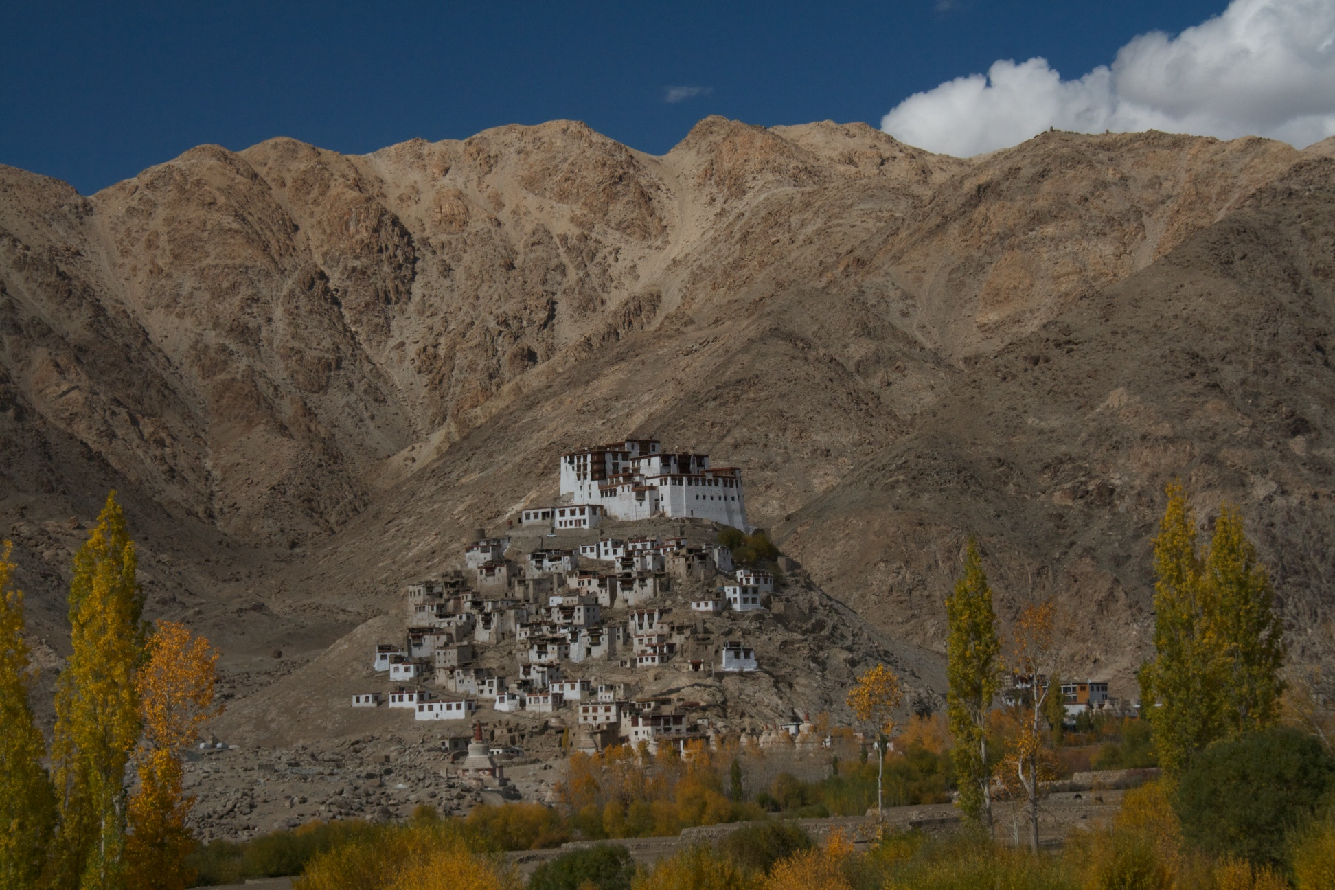 Monastery of Chemrey, Region of Ladakh, India.